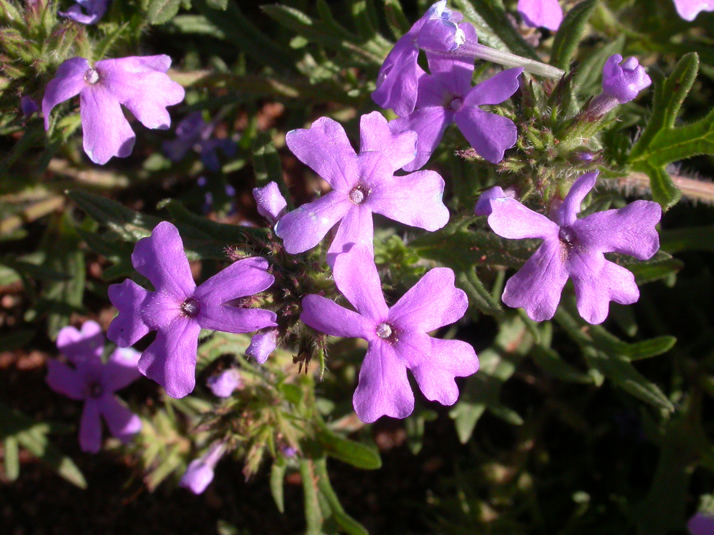 Northeast of Valle, Arizona.